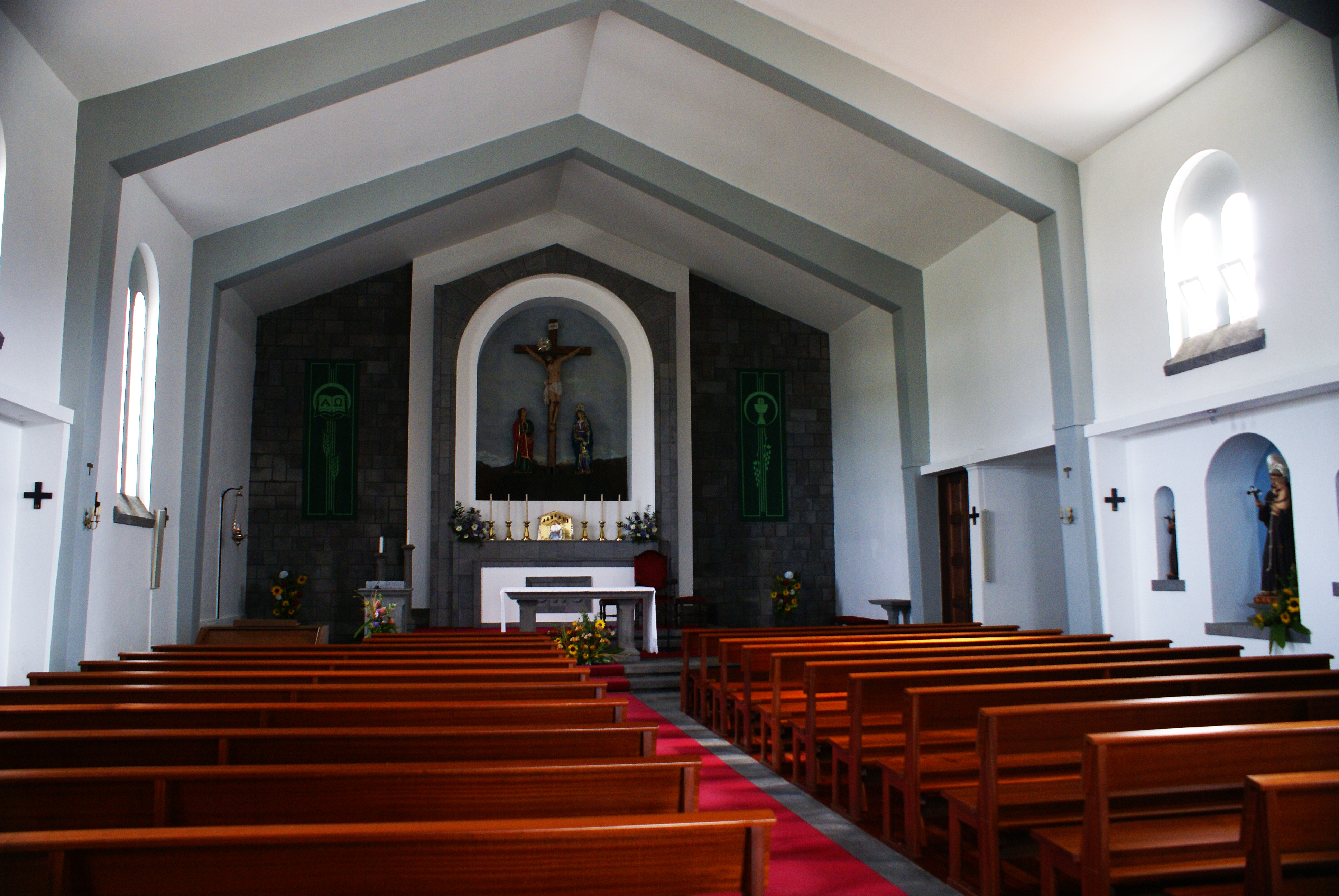 Central nave of the Church of Nossa Senhora das Dores, Praia do Norte, Horta, Faial (Azores), Portugal